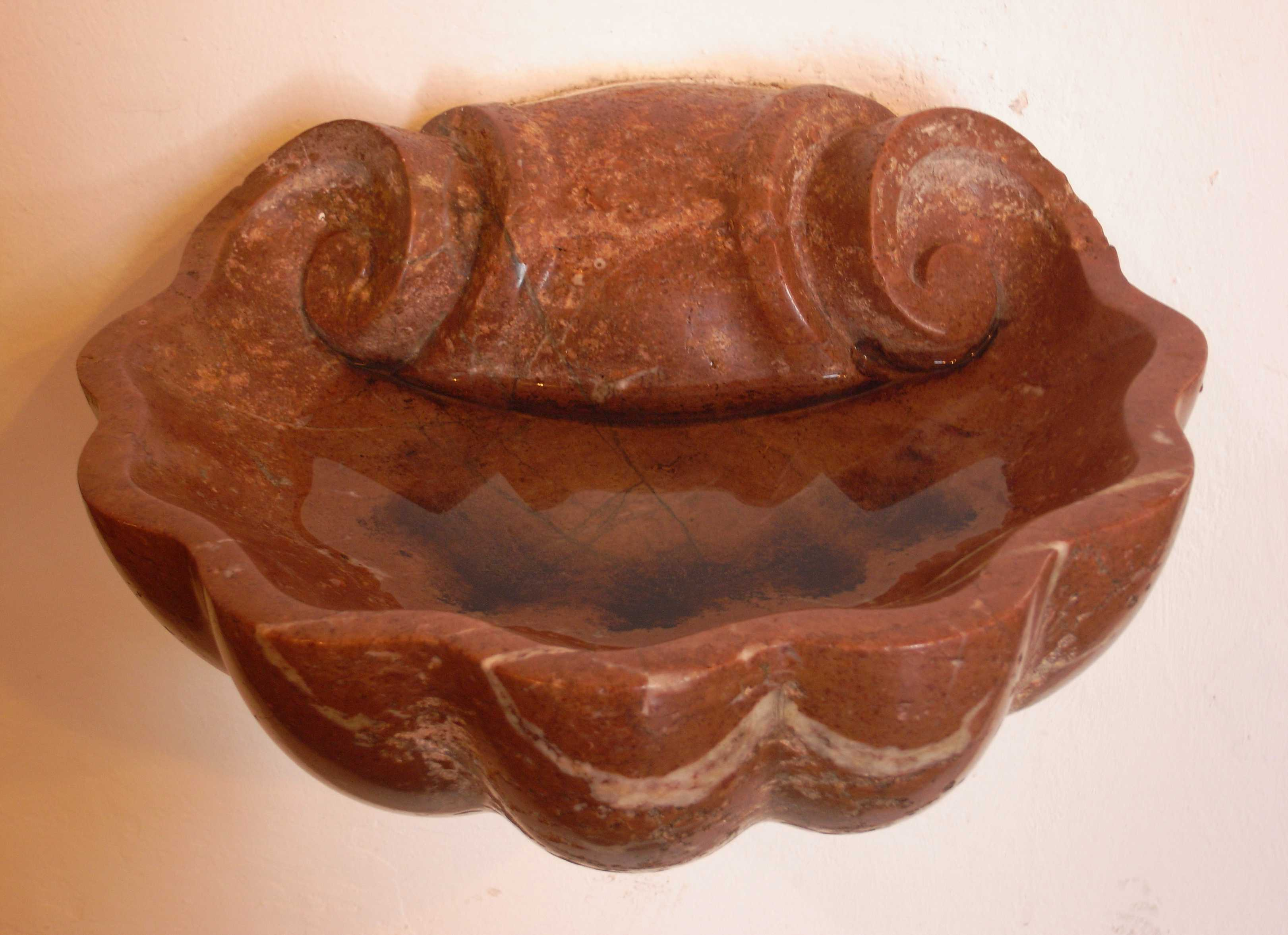 stoup, Slivenec marble (Devonian limestone from Prague region)